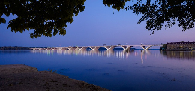 Woodrow Wilson Memorial Bridge, Washington DC Area Photographer: Alan Karchmer Architect: Rosales + Partners Engineer: Parsons Transportation Group